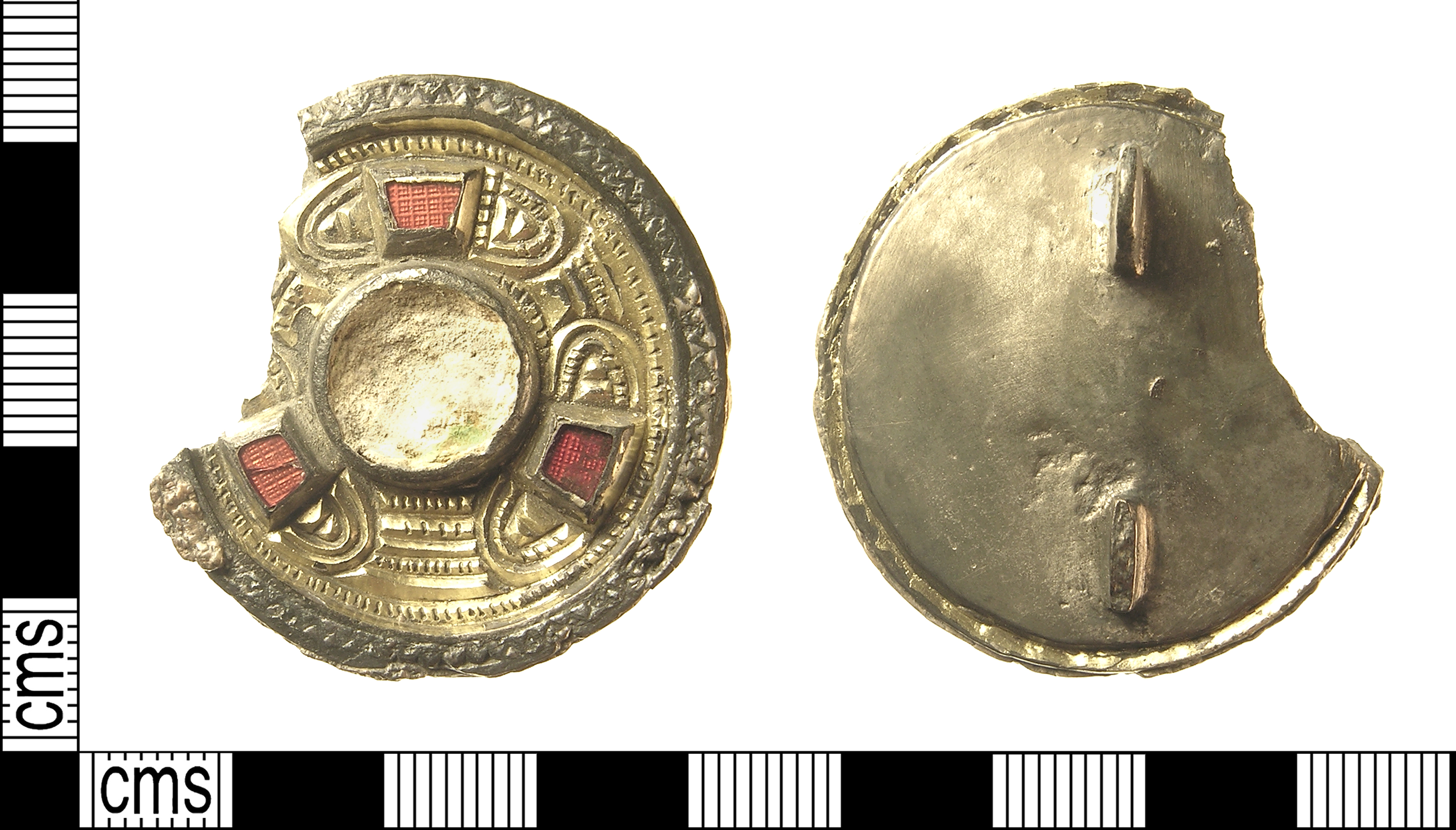 An incomplete Early-Medieval (Anglo-Saxon) silver-gilt disc brooch. This brooch is decorated with three evenly spaced keystone garnets surrounding a central roundel. The keystone garnets have hatched gold foil backing, all apparently of the same design of squares divided into nine; one garnet has a linear fracture. The fields between the garnets abutting the roundel are very dirty, but appear to be decorated with three identical Style I animals, each with a C-shaped double-strand head frame angled towards the garnet, then a body of perhaps four strands (one at least of the inner ridges are beaded) and another symmetrical head. The central roundel has an undecorated frame and contains a residue of discoloured off-white material. A raised flat rim has cast interlocking triangles inlaid with niello, forming a repeated zigzag pattern; the niello is very mineralised and so it is hard to distinguish them against the silver. The edge is battered, but appears to have a pair of circumferential grooves; there is a further circumferential groove around the edge of the reverse. The reverse has a single D-shaped pin-lug and the stub of a catch-plate, as well as some irregularities which look like corrosion bubbles. The pin lug has a very small hole for the pin. Nearly a third of the edge is missing; the breaks are neither particularly old nor particularly fresh. The find contains a minimum of 10% silver and predates 1710. It thus qualifies as Treasure under the stipulations of the Treasure Act 1996 in terms of precious metal content and age. Diameter: 40.7mm; thicknes: 12.0mm. Weight: 15.41g. This brooch belongs to Avent's Class 3, with 'reversed heads' at either end of a single body. It is perhaps closest to Avent's no. 100, his single example of his Class 3.4, which has the same multiple straight ridges for the body. It dates to the late 6th century.